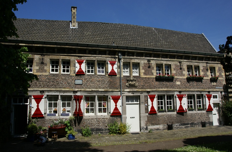 National monument no. 26964 - former cloister St Catharina, Faliezusterspark 8-6-4, Maastricht, The Netherlands